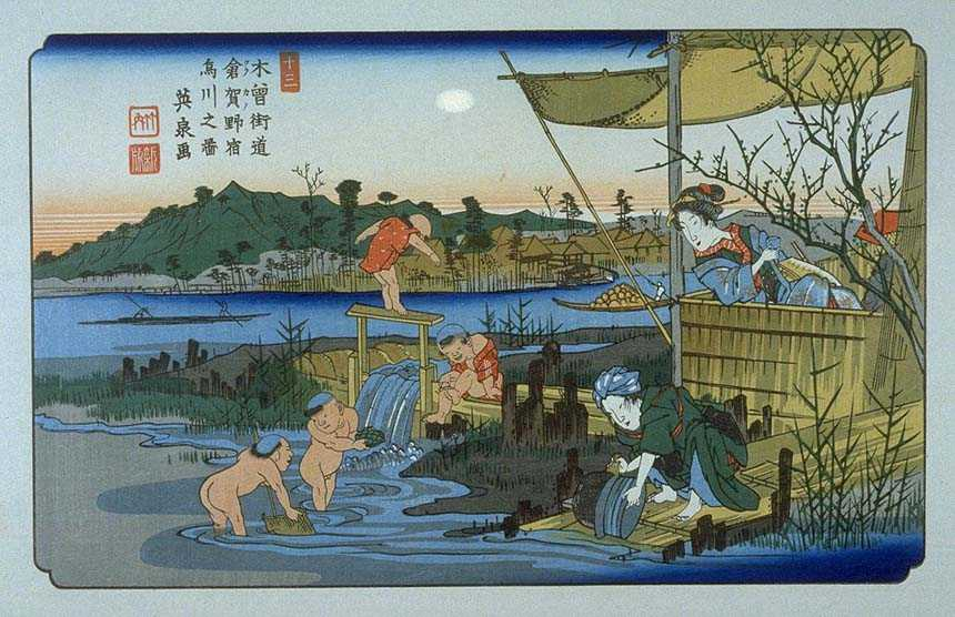 Kuragano on the Kisokaido, ukiyo-e prints by Keisai Eisen